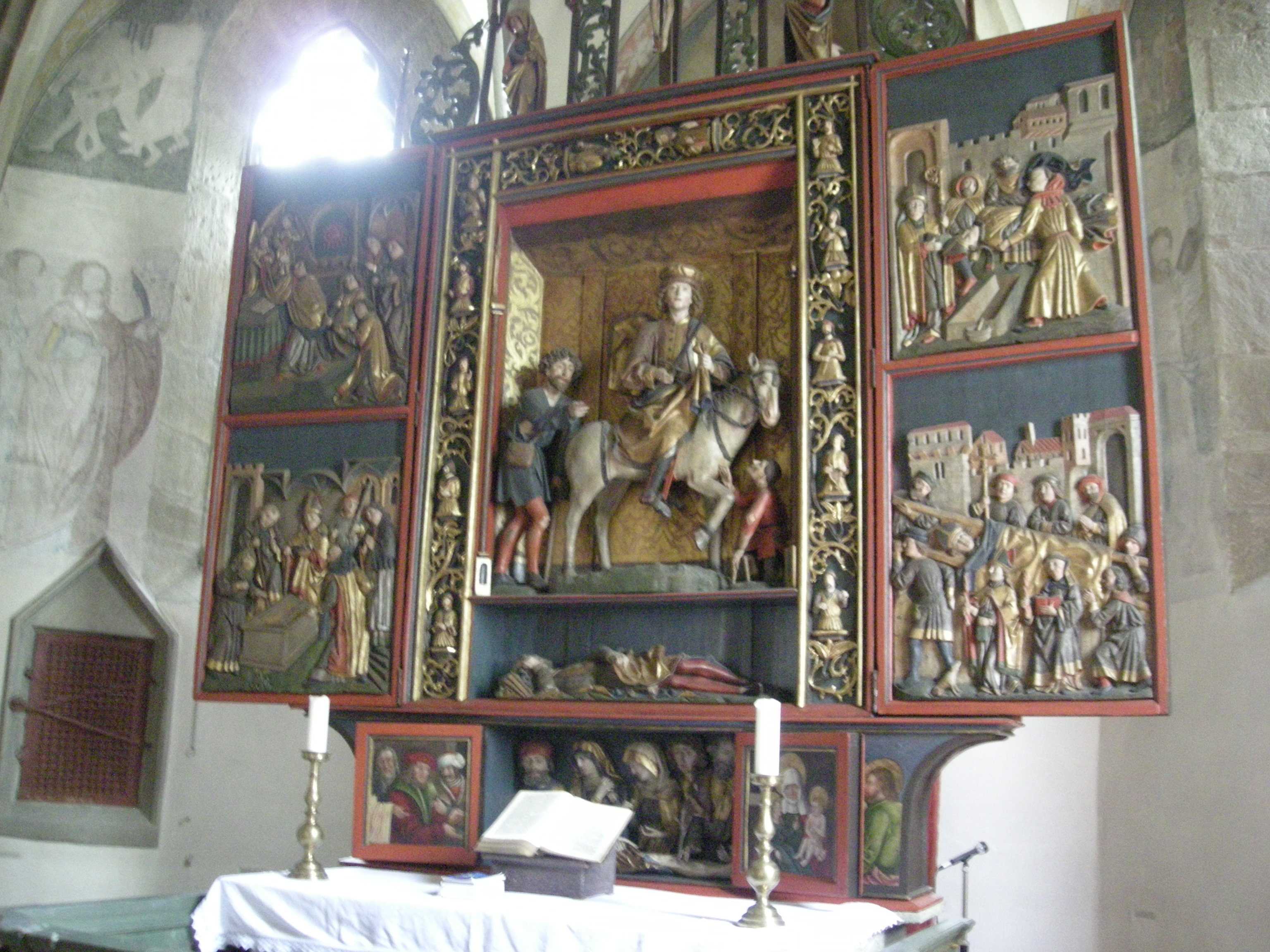 The interior of St. Martin in Vellberg, Baden-Württemberg (Germany).